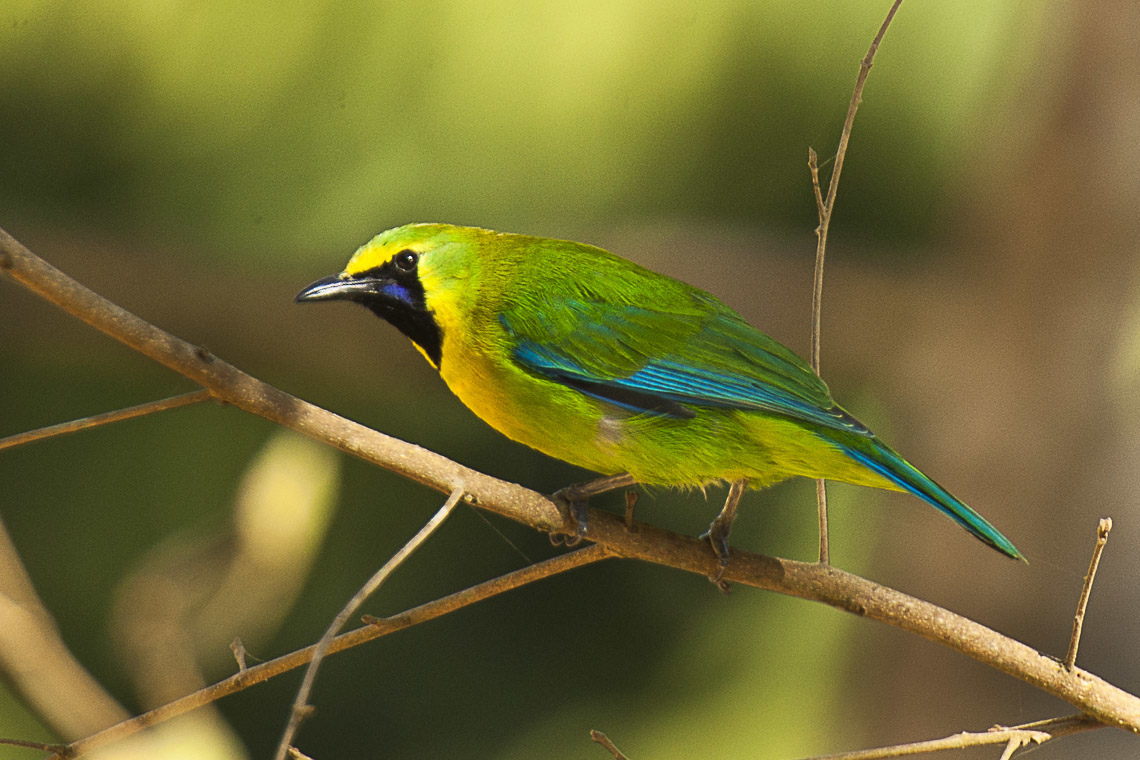 Blue-winged Leafbird - Thailand_H8O5844